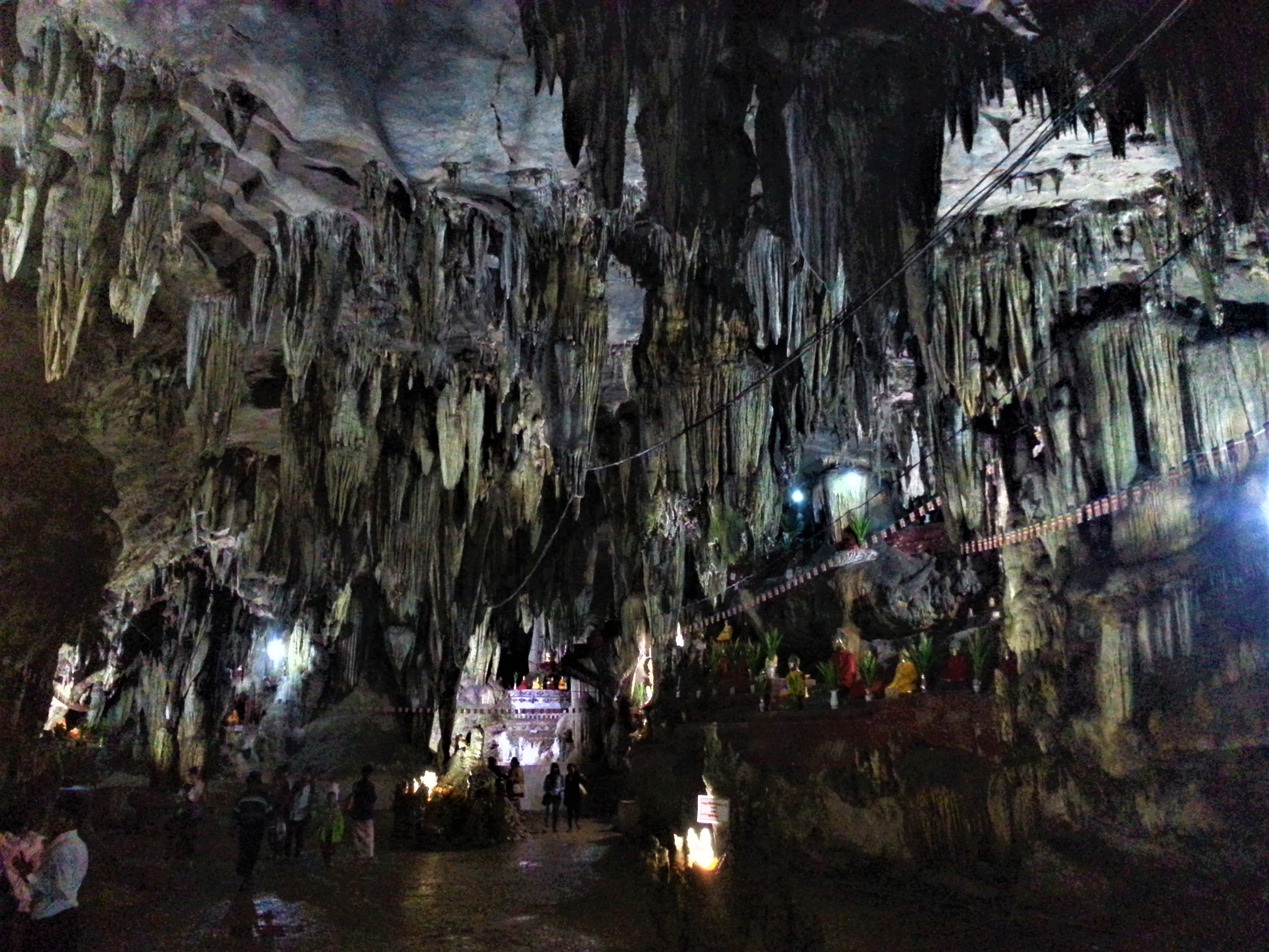 Inside of Htam Sam Cave, Hopone, Shan State မြန်မာဘာသာ: ထမ်းဆန်းဂူ အတွင်းတနေရာ၊ ဟိုပုံး၊ ရှမ်းပြည်နယ်